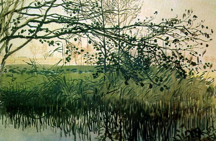 Stanislaw Maslowski (1853-1926), Pond in Radziejowice, 1907, water-colour on paper, 39x42,5 cm